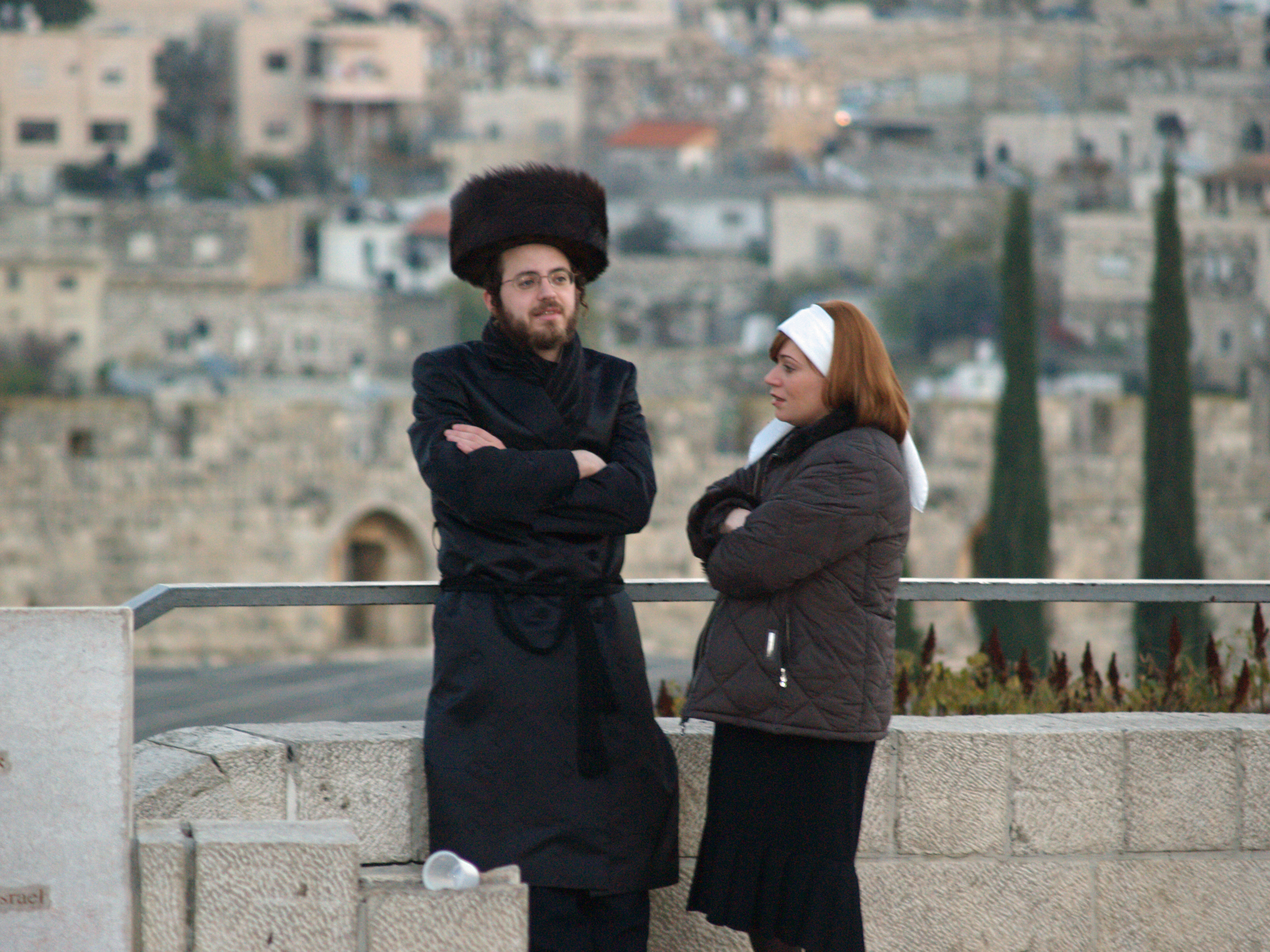 Hasidic Orthodox couple on Shabbat in Jerusalem, outside the Western Wall.